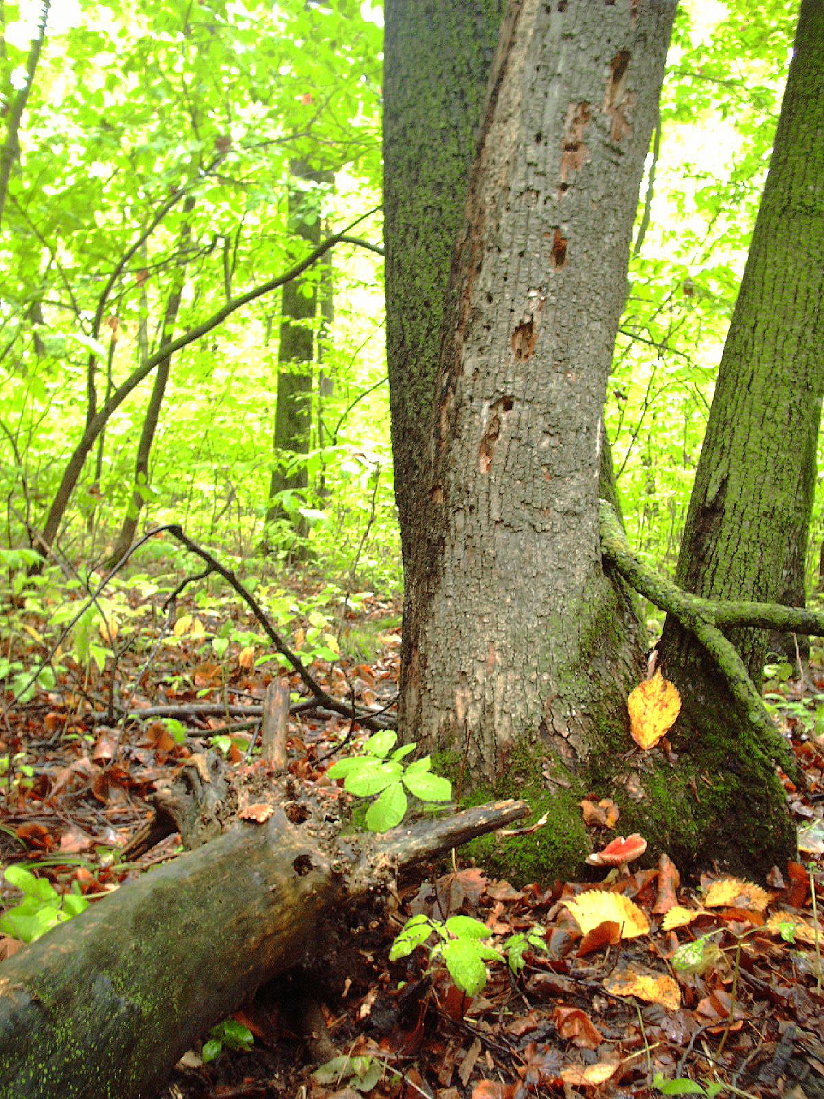 Early September 2006 in Nerstrand-Big Woods State Park in Minnesota.